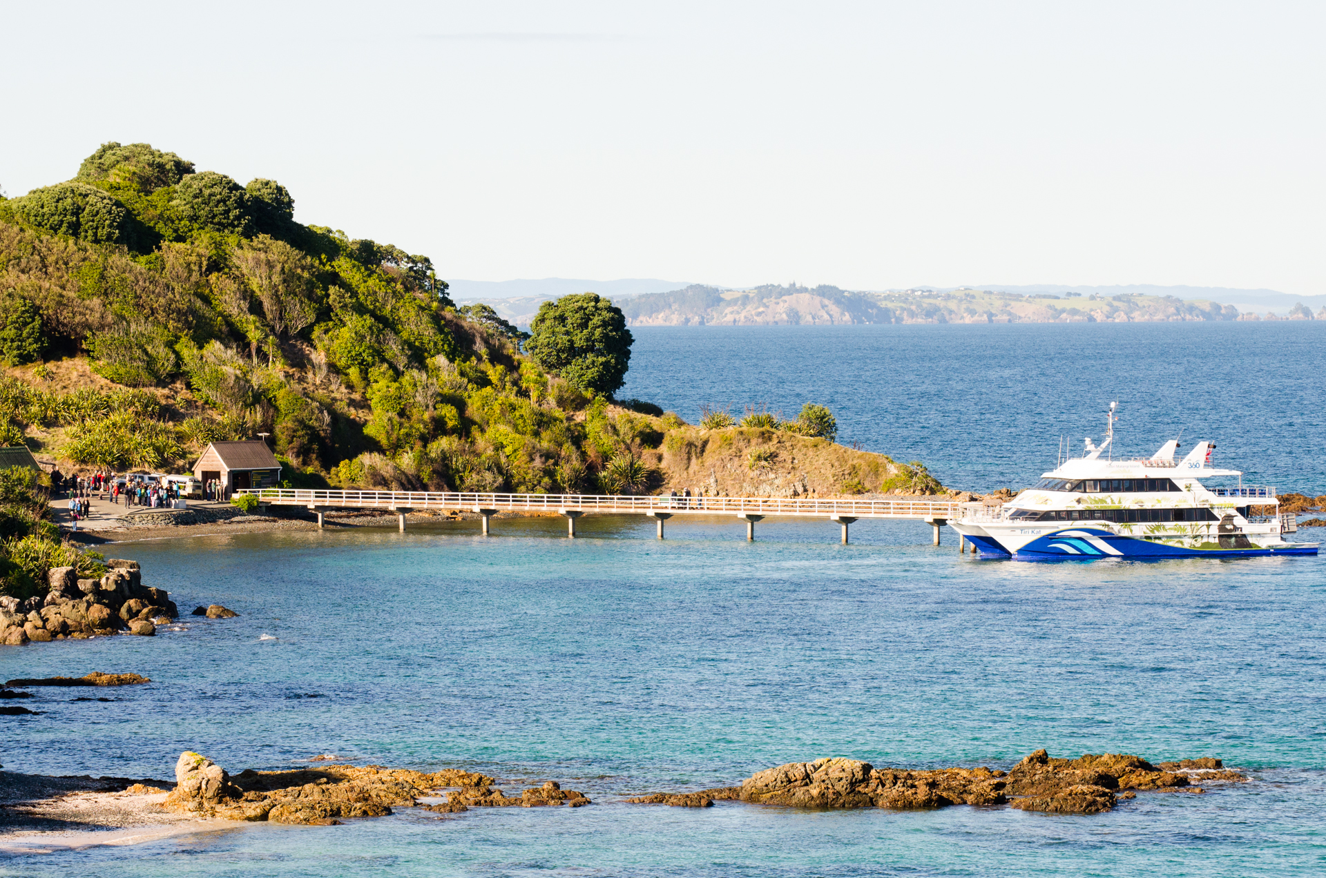 The 360° Discovery ferry has just finished disembarking day-trip passengers at the Tiritiri Matangi pier.